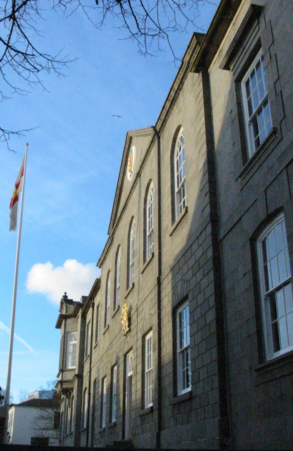 Saint Peter Port, Guernsey:La Cohue, seat of the Guernsey parliament